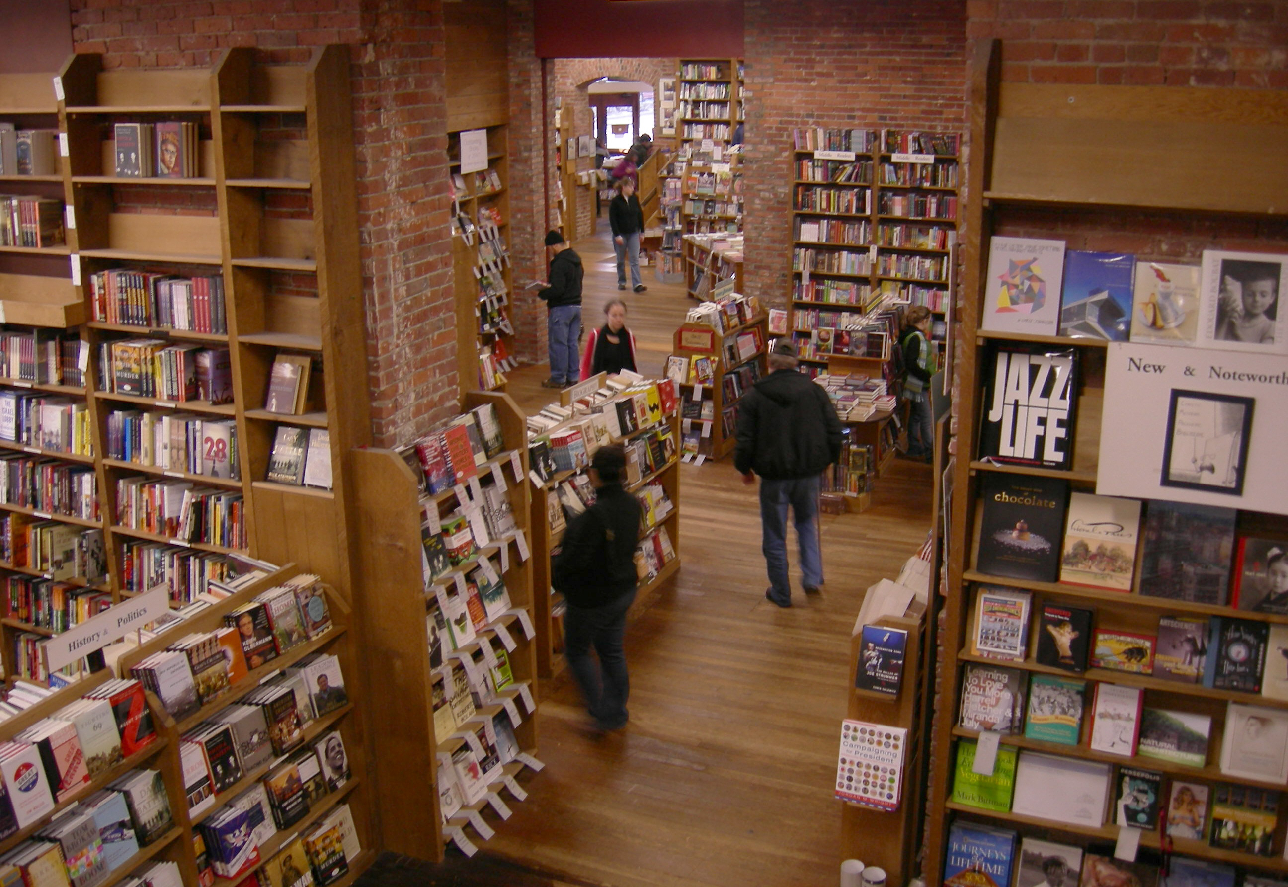 Cafe at Elliott Bay Books, Seattle, Washington.